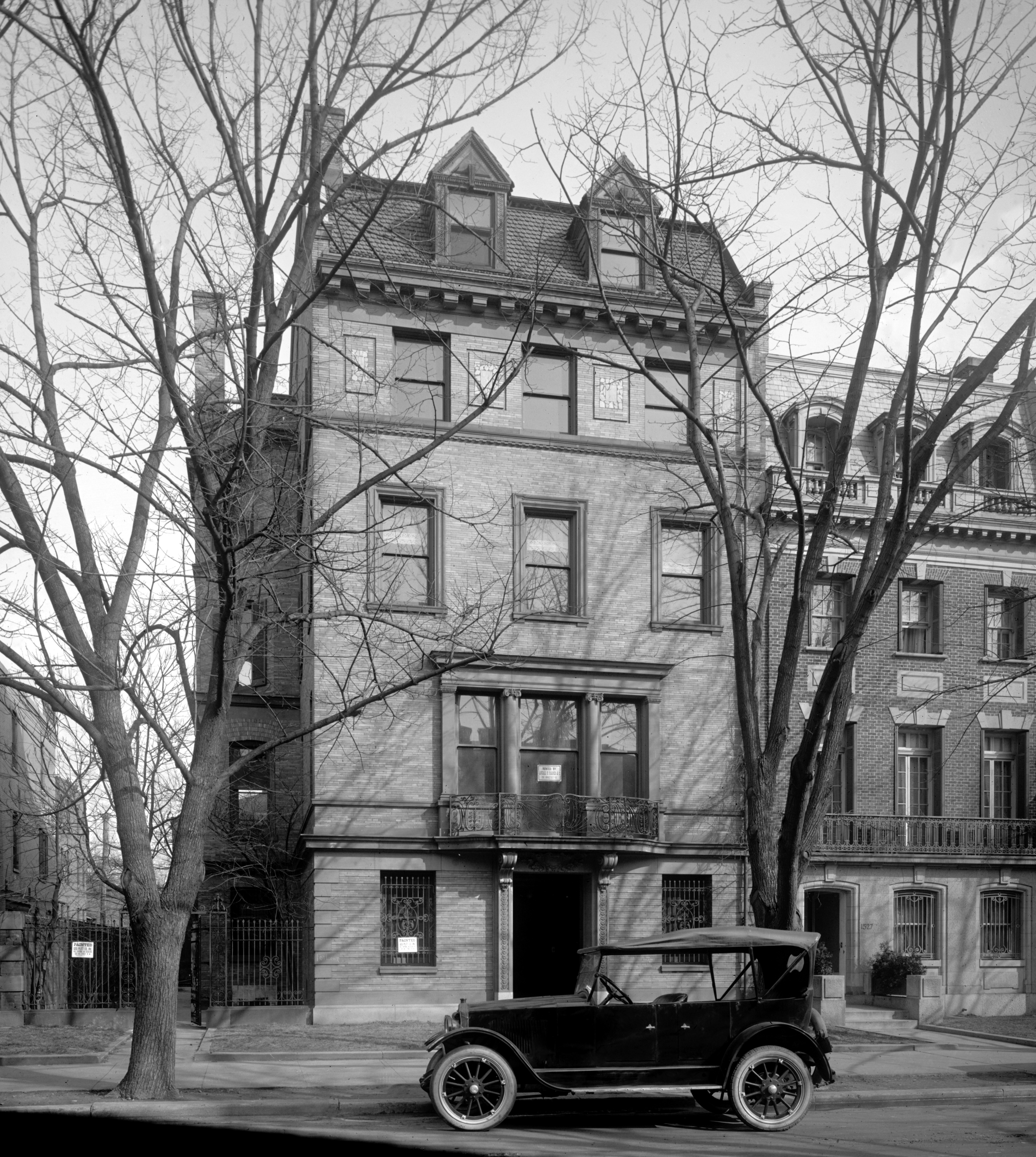 The residence of United States Secretary of State Charles Evans Hughes located at 1529 18th Street, NW in the Dupont Circle neighborhood of Washington, D.C.